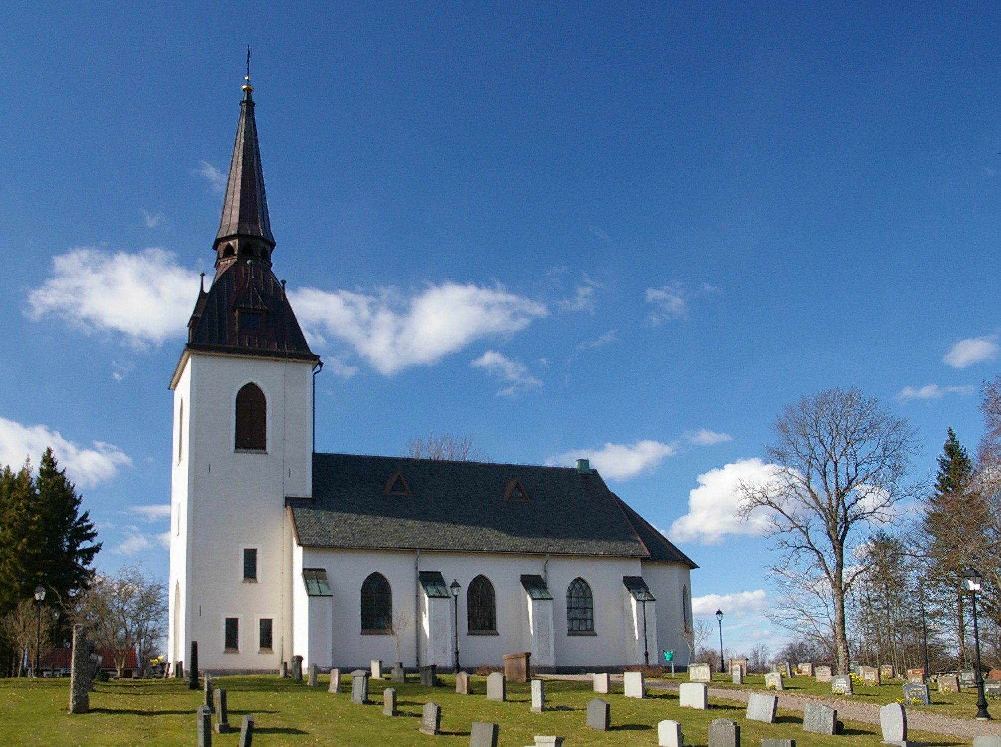 Tiarps kyrka (Swedish:Church of Tiarp) in Västergötland, Sweden